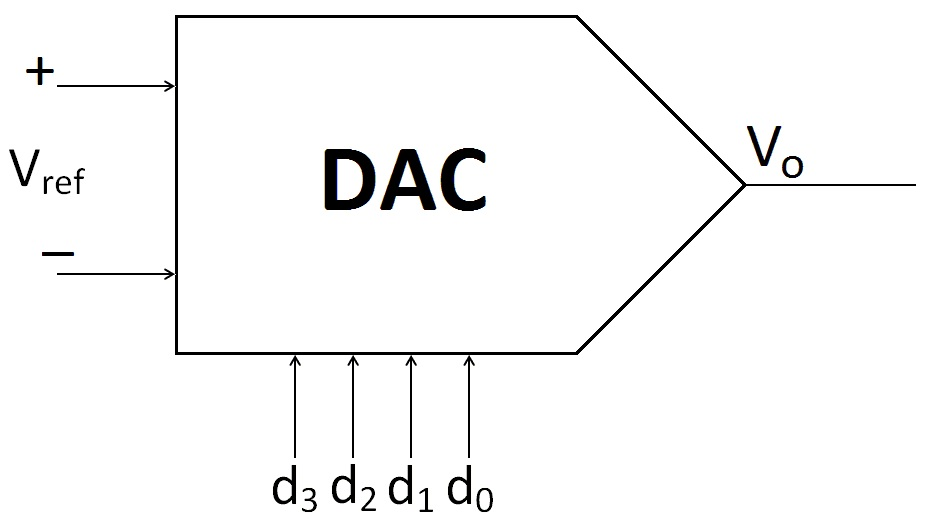 Electrical schematic symbol of DAC